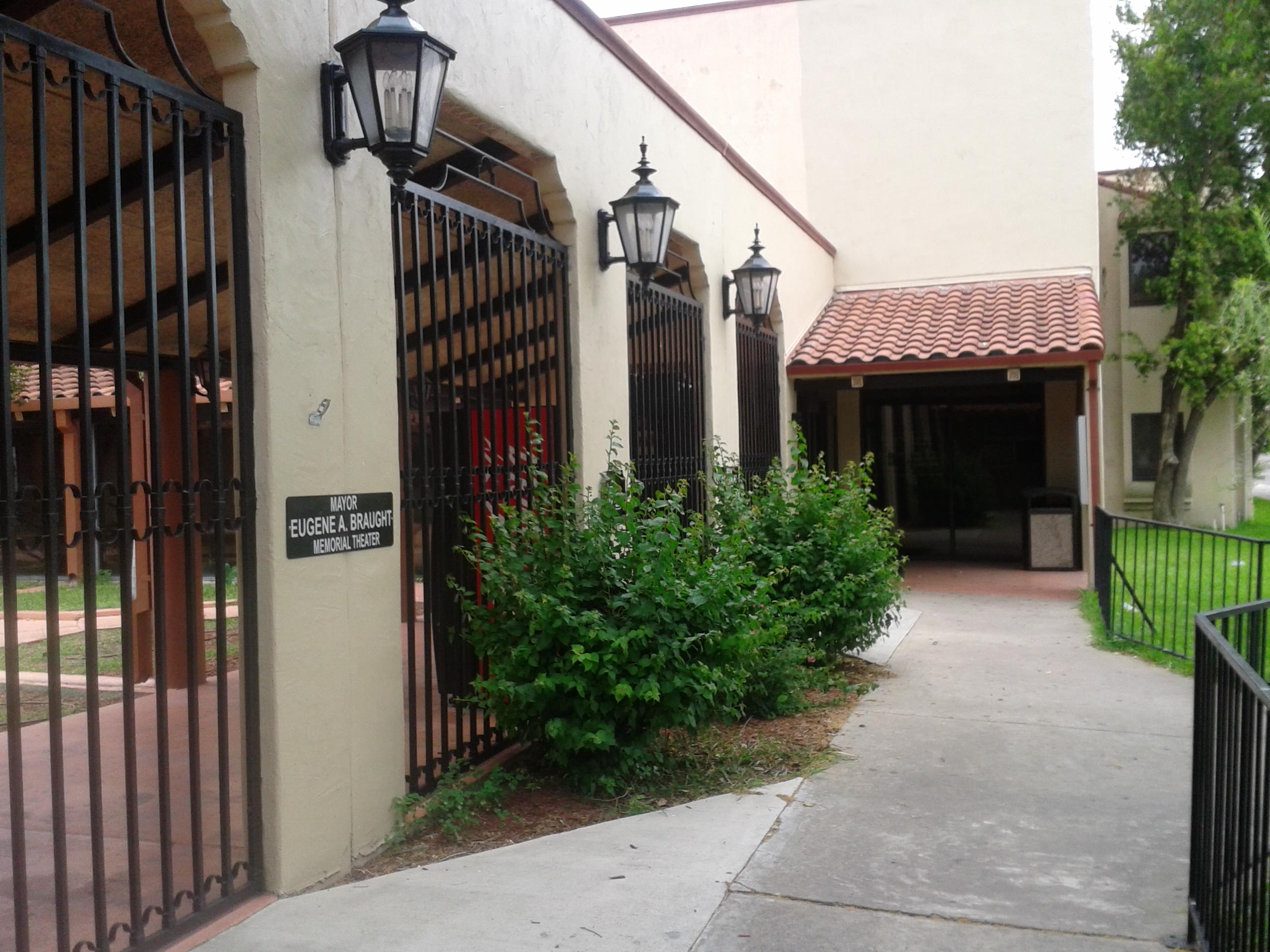 Weslaco Library entry.